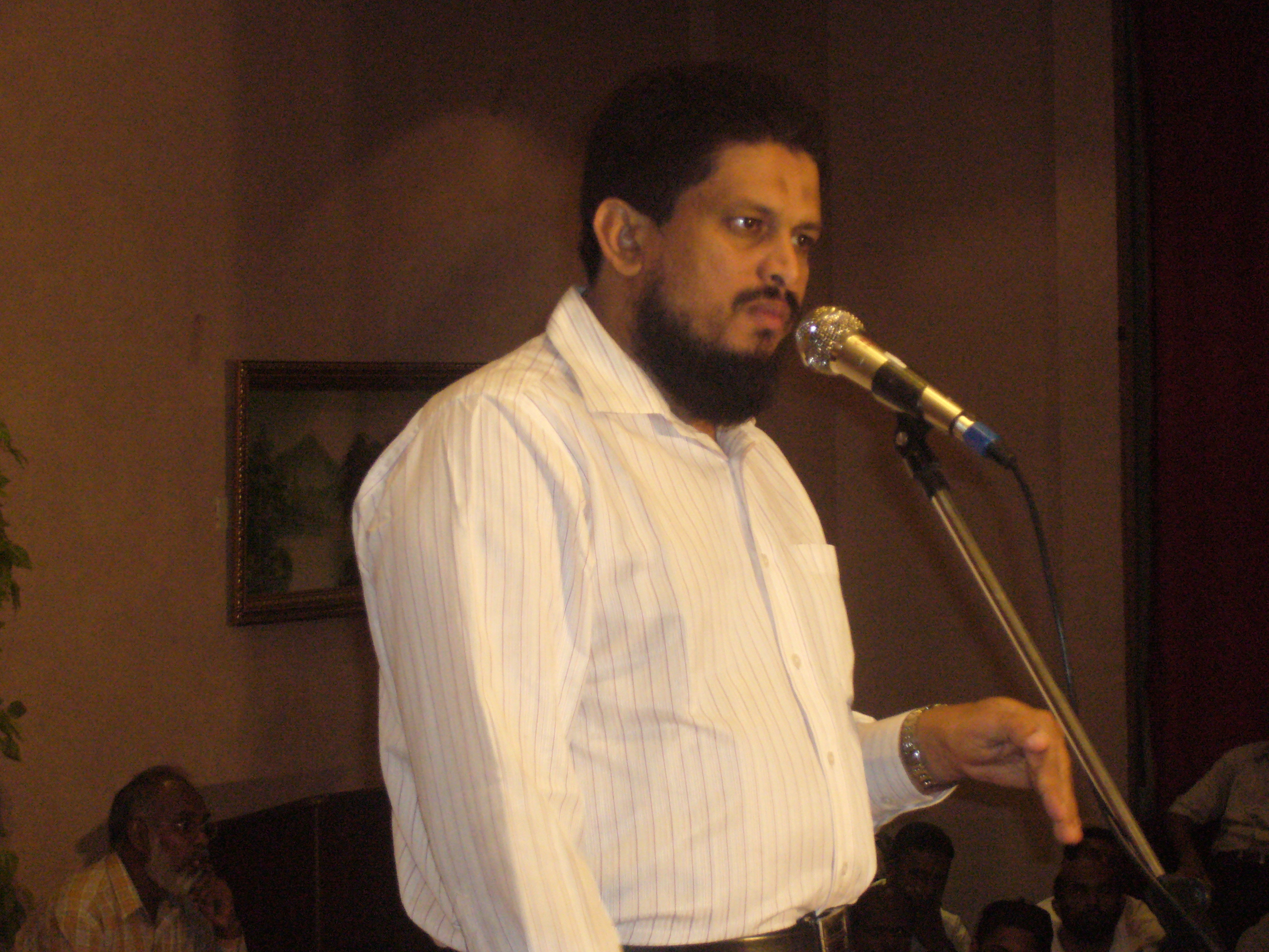 M.m Akbar